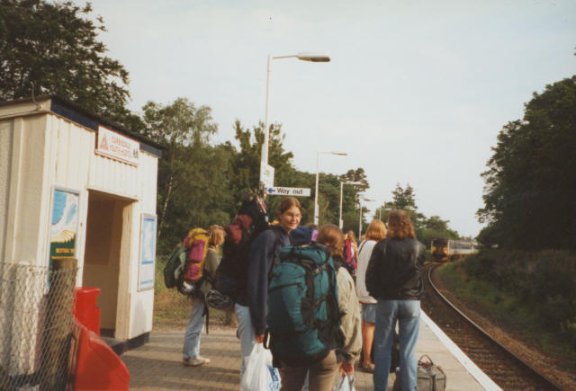 Interrailers - Culrain station